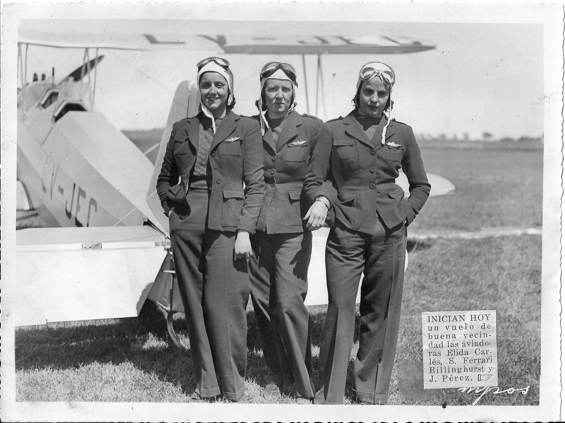 Trio of Argentinian lady pilots in 1943